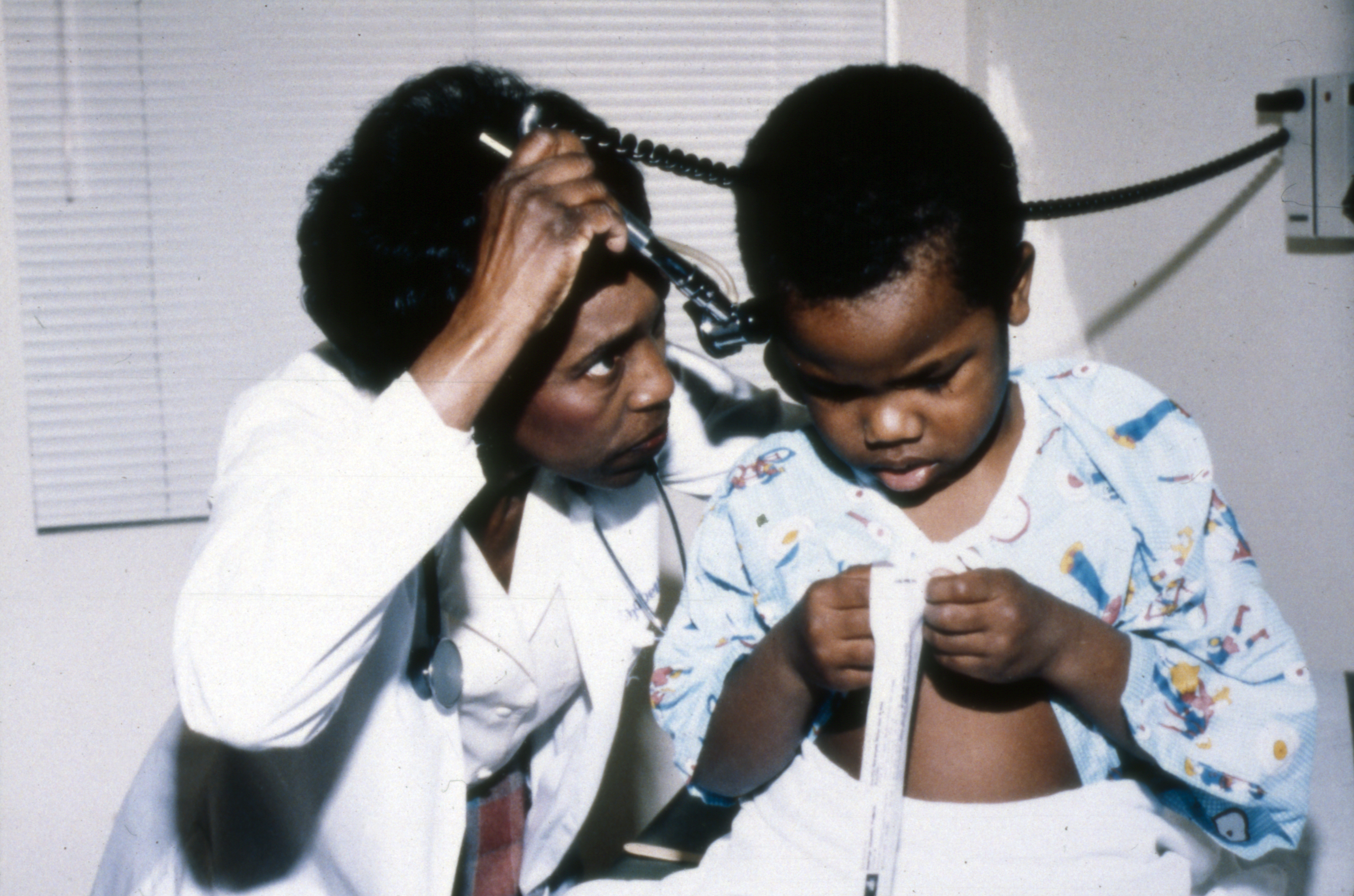 Doctor examining child, Seattle, Washington, U.S., circa 1970s.